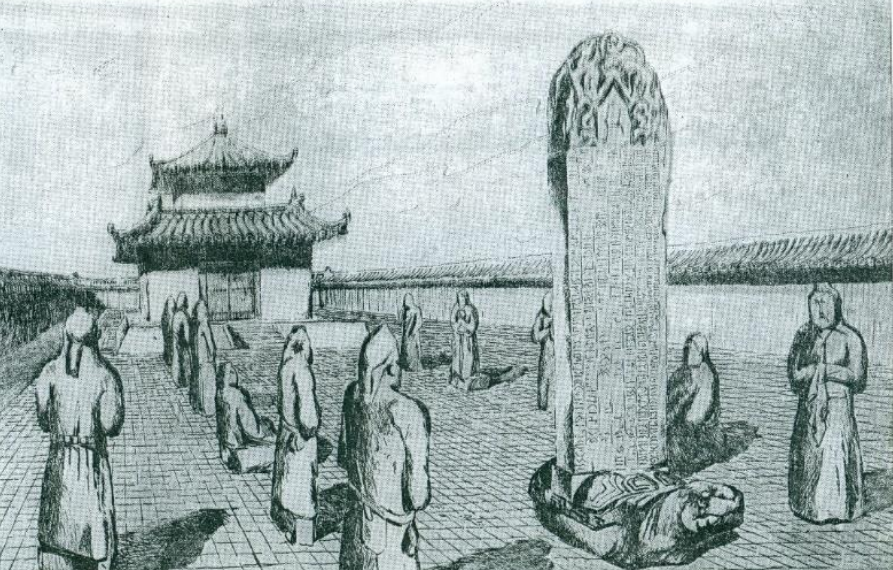 Illustration 1: Reconstruction of Kül Tigin’s memorial. Only altar [behind the bark] and the balbal line [in front of the enterence] cannot be seen (after Nowgorodova 1981).